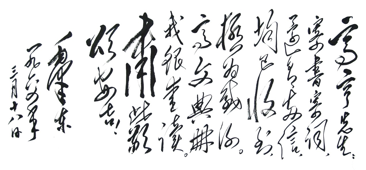 Letter from Mao Zhedong to the scholar Gao Heng. The text reads (top to bottom, Right to left): 高亨先生：寄书寄词，还有两信，均已收到，极为感谢。高文典册，我很爱读。肃此。敬颂安吉！毛泽东 1964年3月18日。